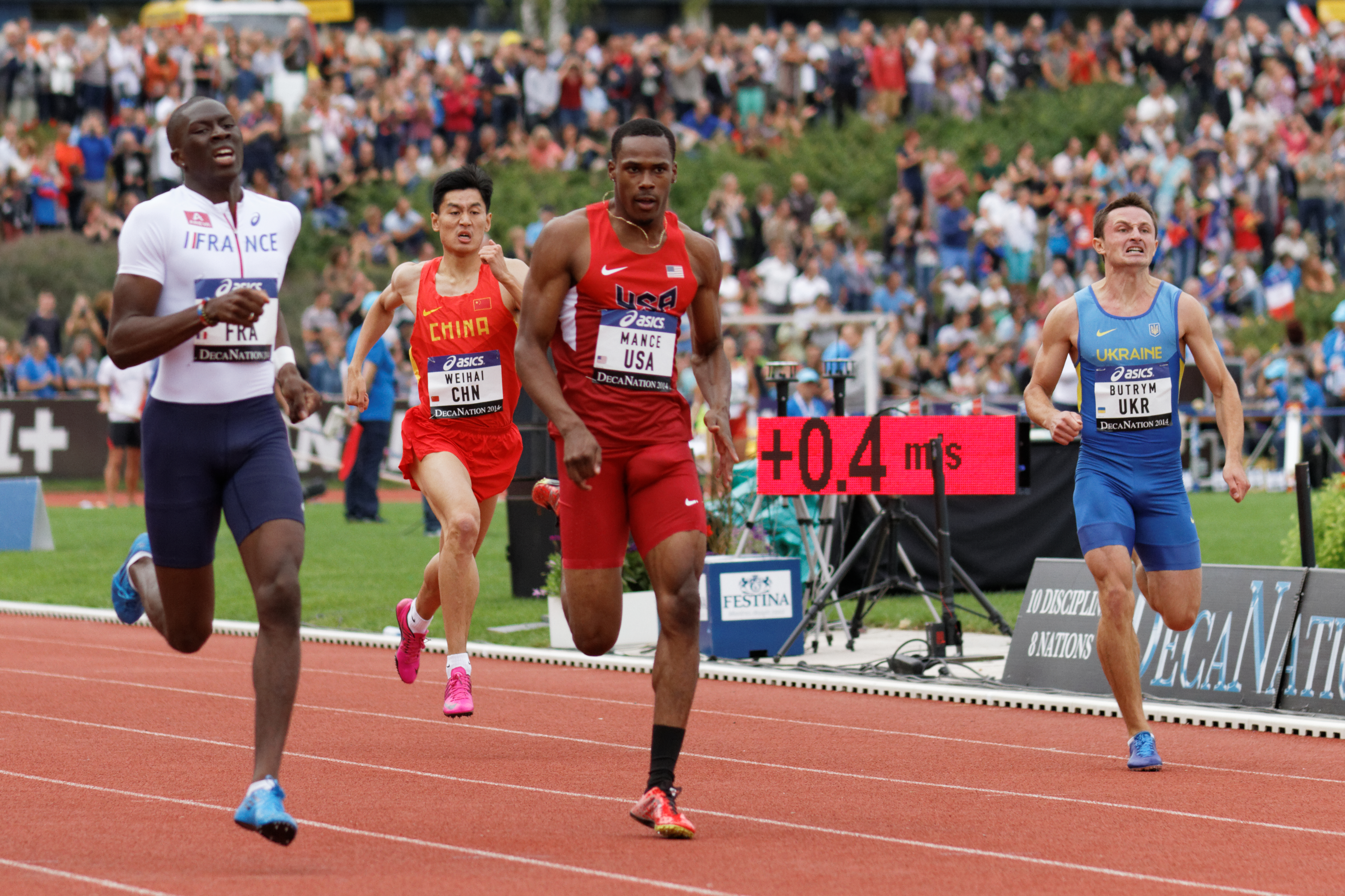 DécaNation 2014